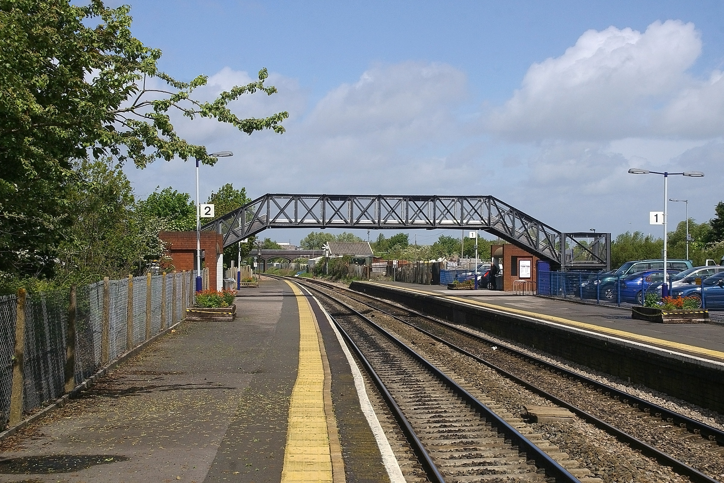 Patchway railway station in Bristol, looking north.